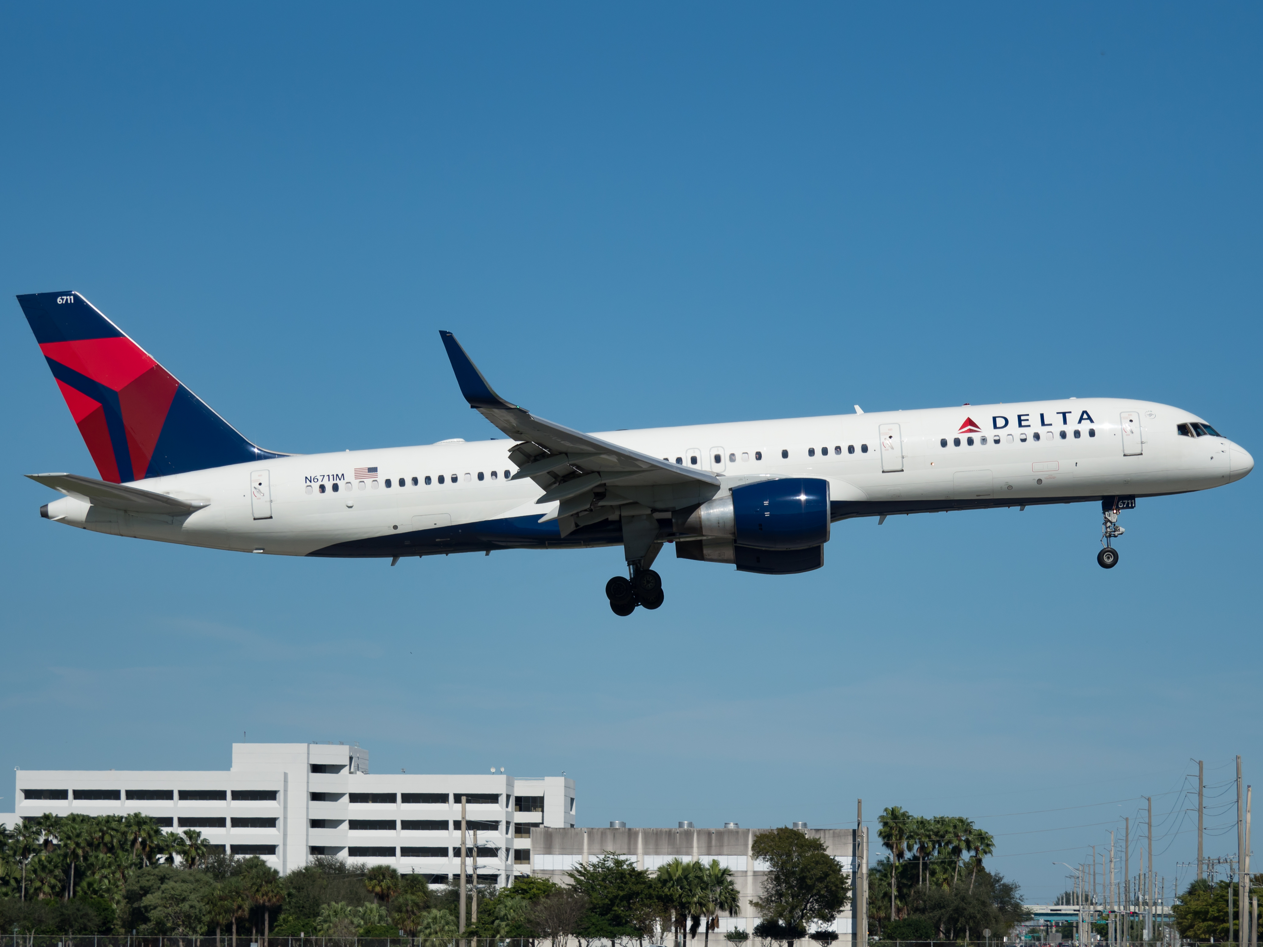 Delta Air Lines Boeing 757 at Miami International Airport